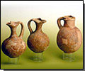 Tell Megiddo finding – from University of Tel-Aviv Excavations - The Megiddo Project This work is free and may be used by anyone for any purpose. If you wish to use this content, you do not need to request permission as long as you follow any licensing requirements mentioned on this page.